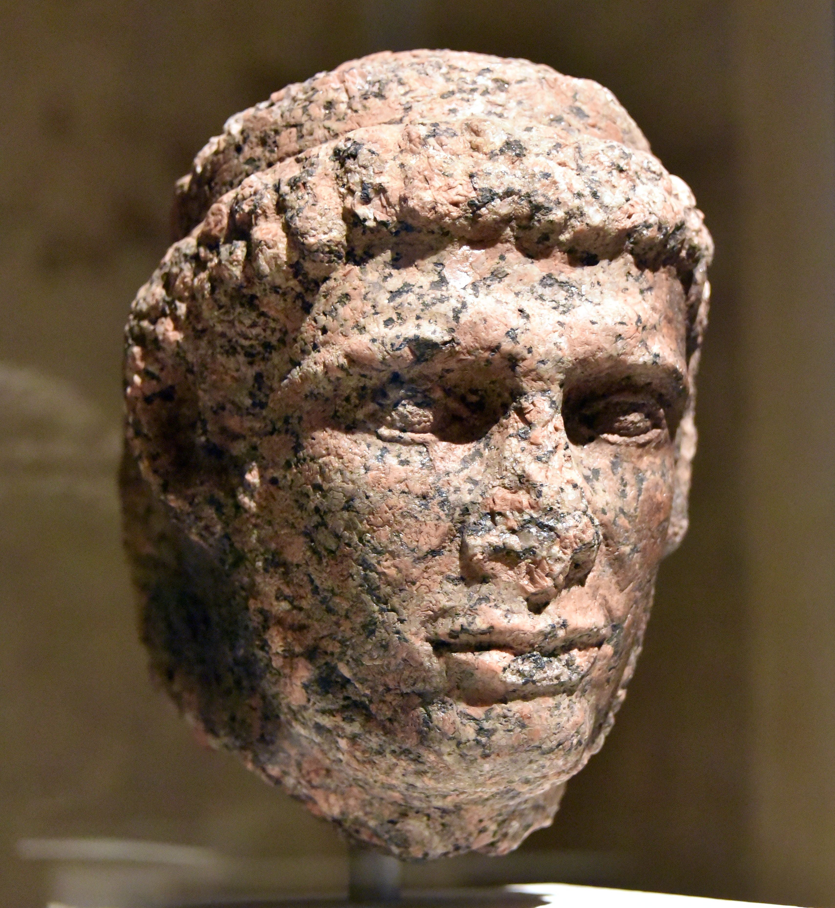 Head of Ptolemy X, from Egypt, Ptolemaic period, 2nd century BCE. Neues Museum, Berlin, Germany. Pink granite, ÄM 14079.